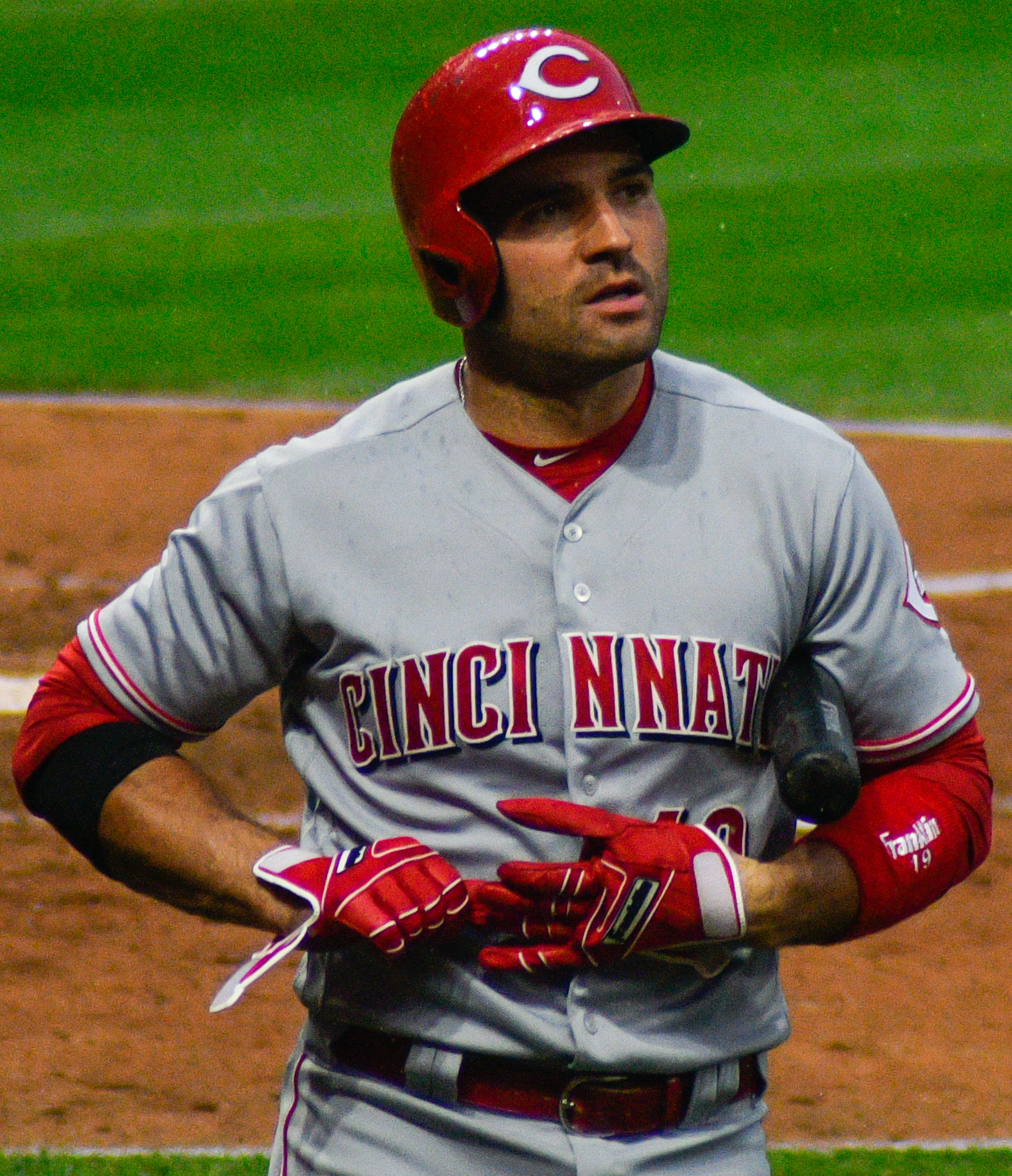 Joey Votto vs. Cleveland Indians in 2017